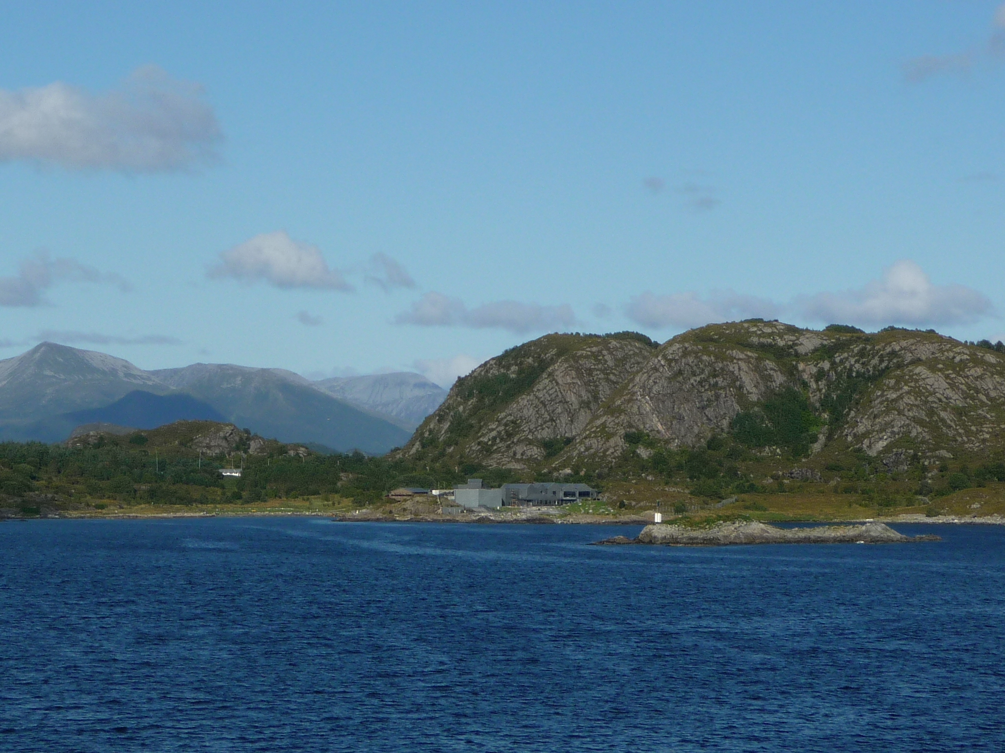 View of Aalesund Aquarium Atlantic Sea-Park (Atlanterhavsparken) from the sea